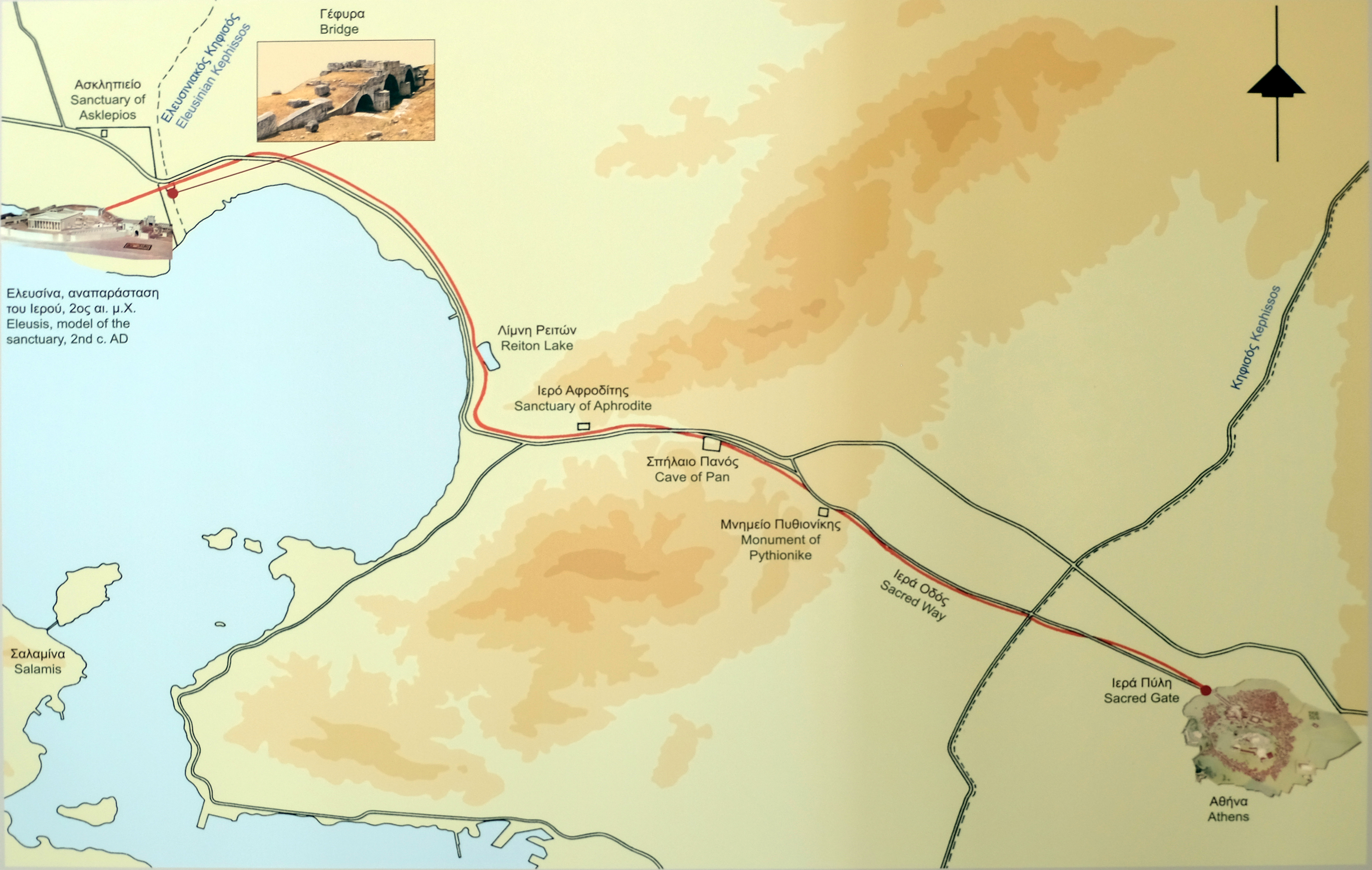 Map of sacred way from Athens to Eleusis